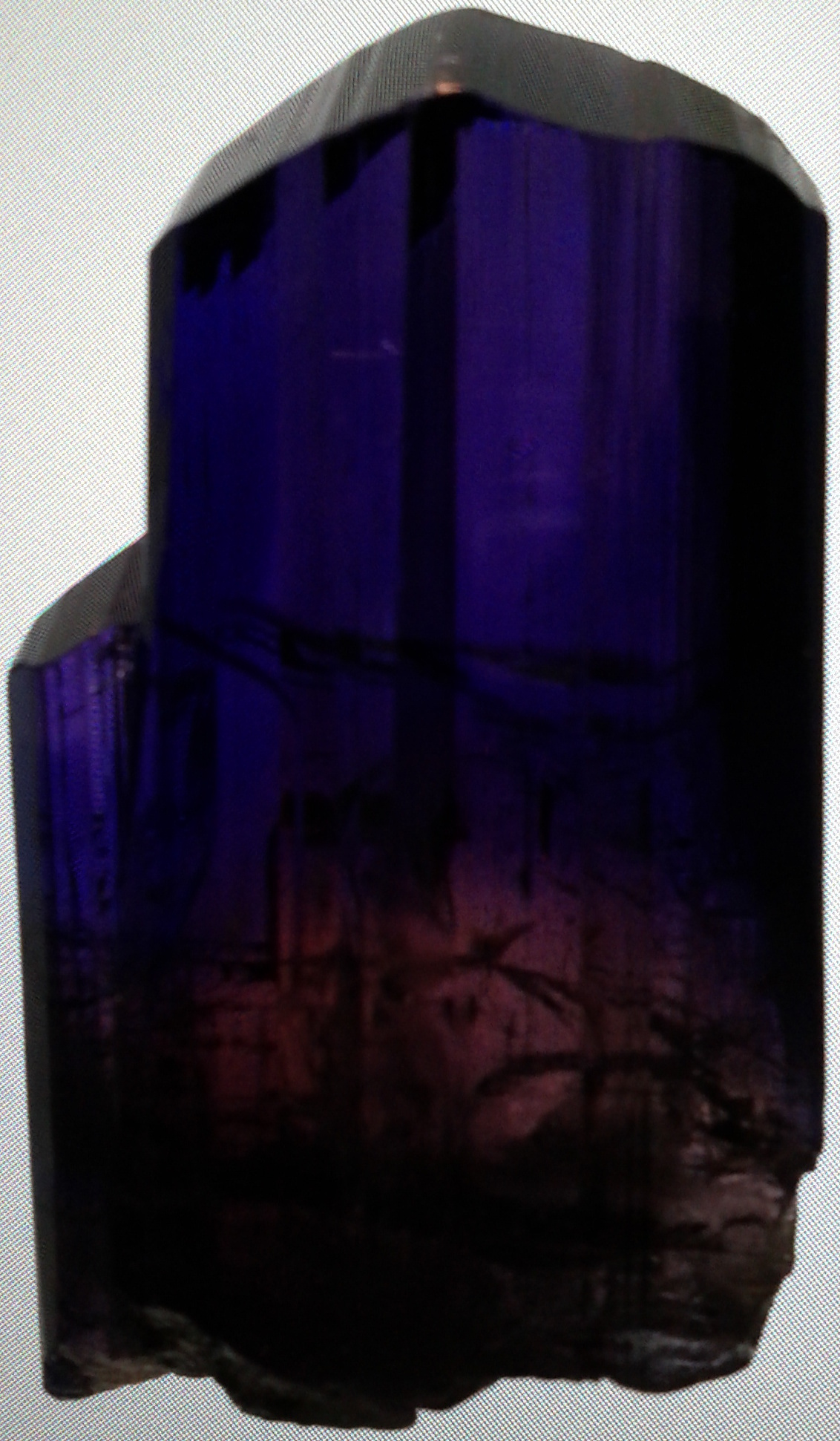 A natural tanzanite specimen displaying multiple colours